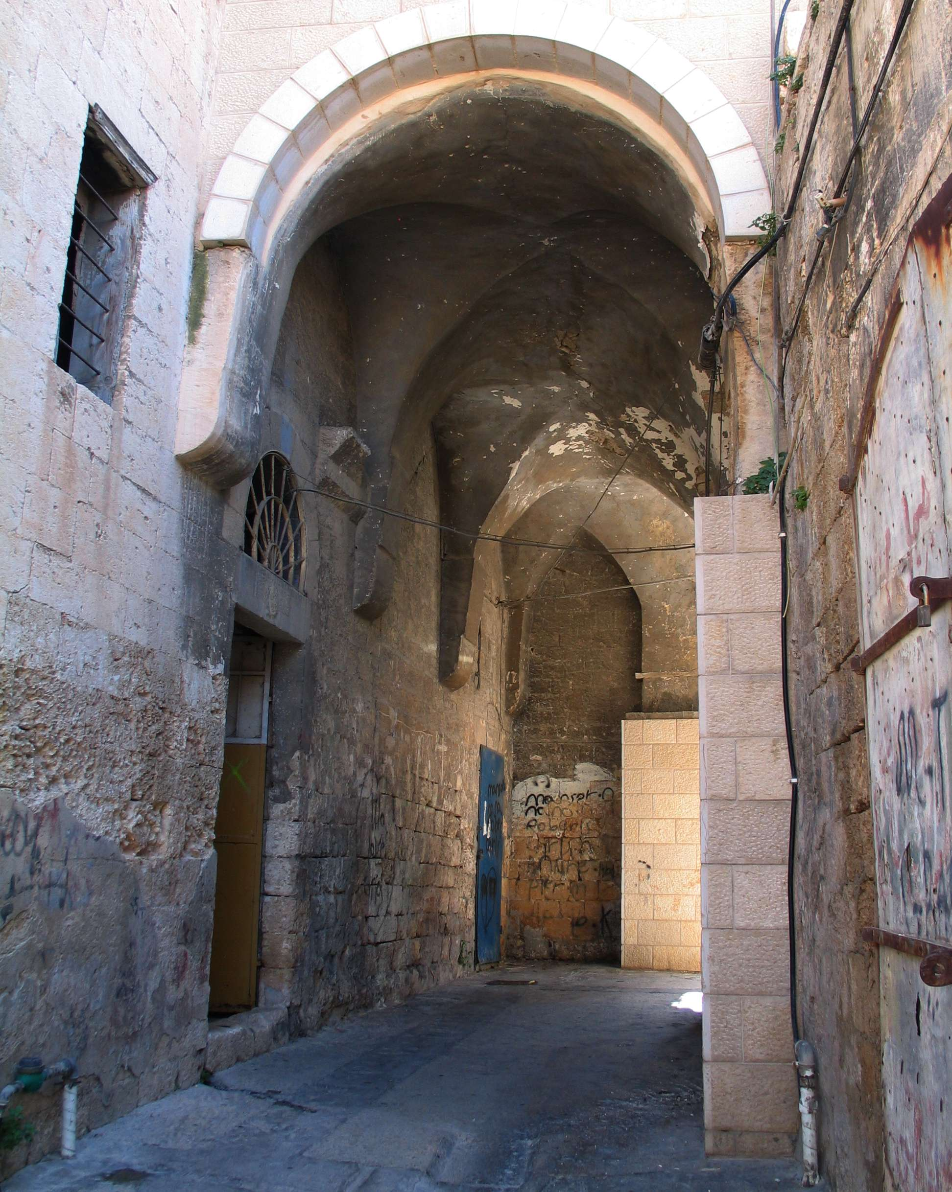 Old market in Shfaram, Israel.